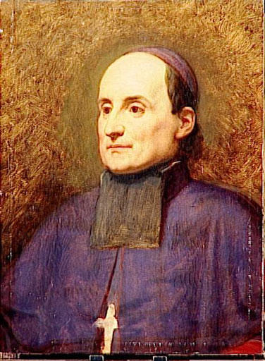 Marie-Dominique-Auguste Sibour (1792-1857)